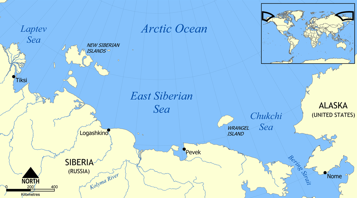 Map showing the location of the East Siberian Sea, part of the Arctic Ocean, located north of Siberia and between the Laptev Sea and Chukchi Sea.